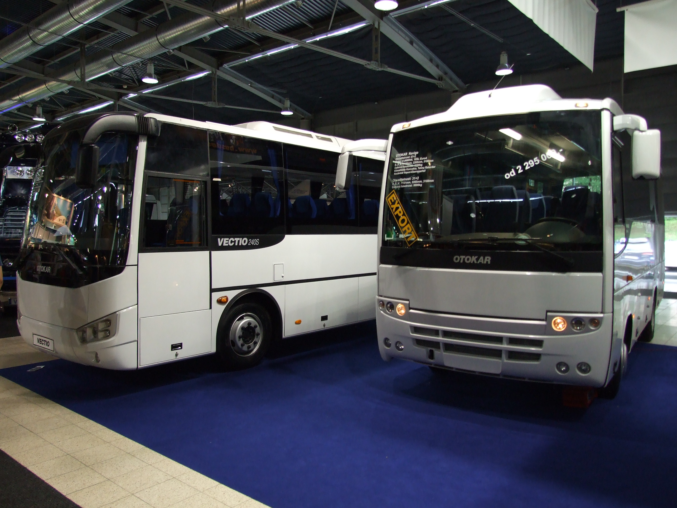 Otokar turkish buses in Autotec 2008 in Brno. From left to right: Otokar Vectio 240S bus and Otokar Navigo bus.help